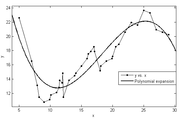 On this graph, we have the leptin circadian cycle, interfered by three meals a day. Data from: David E. Cummings, Jonathan Q. Purnell, R. Scott Frayo, Karin Schmidova, Brent E. Wisse, and David S. Weigle. A Preprandial Rise in Plasma Ghrelin Levels Suggests Role in Meal Initiation in Humans. Rapid Publication. Diabetes. 50:1714–1719, Vol. 50, August, 2001.